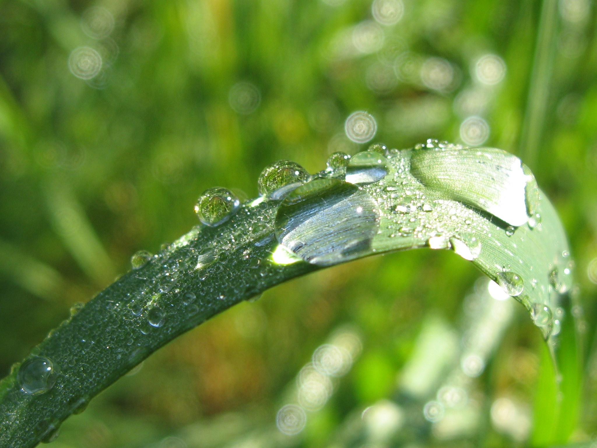 Dew on a grass